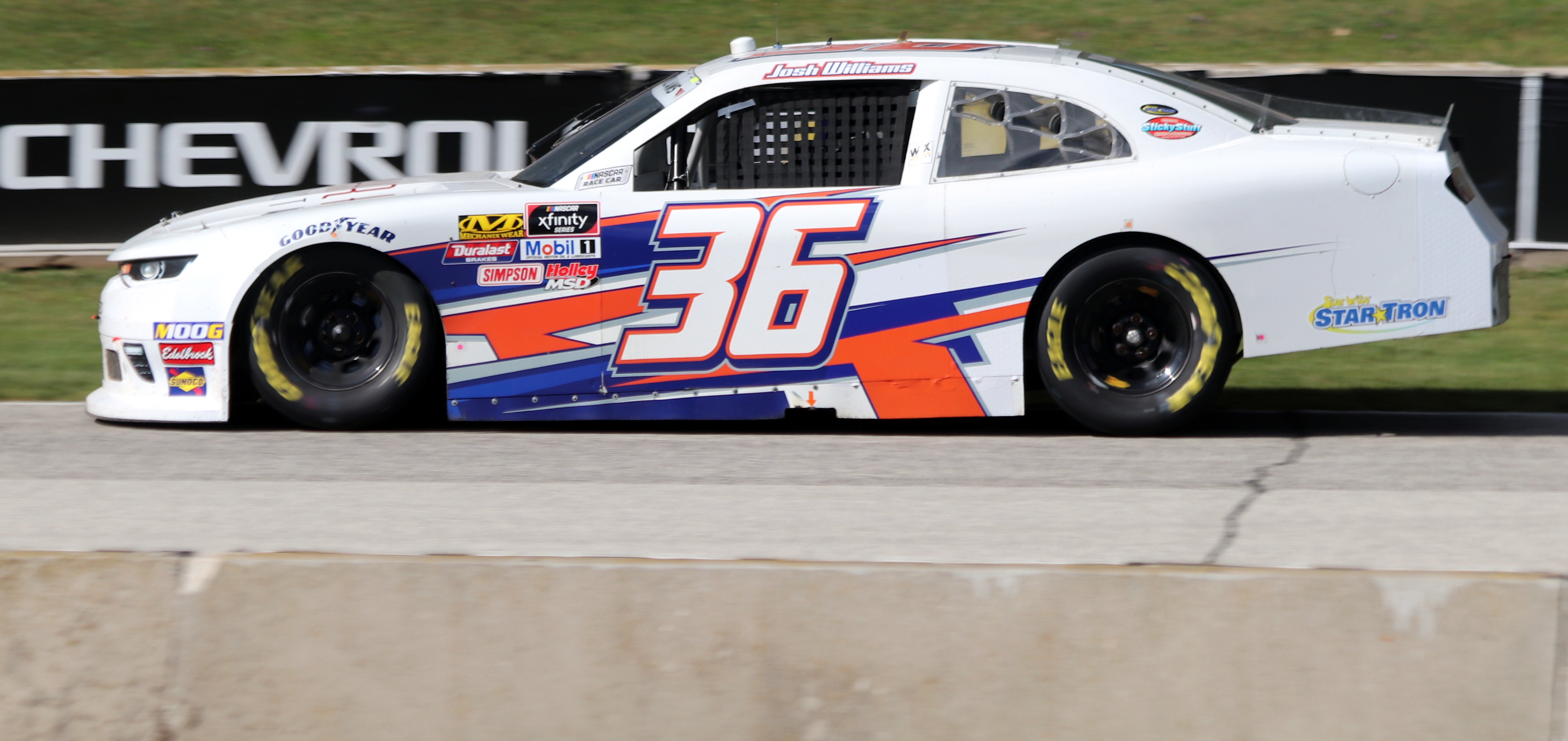 The #36 Chevrolet Camaro of Josh Williams at the NASCAR CTECH 180.